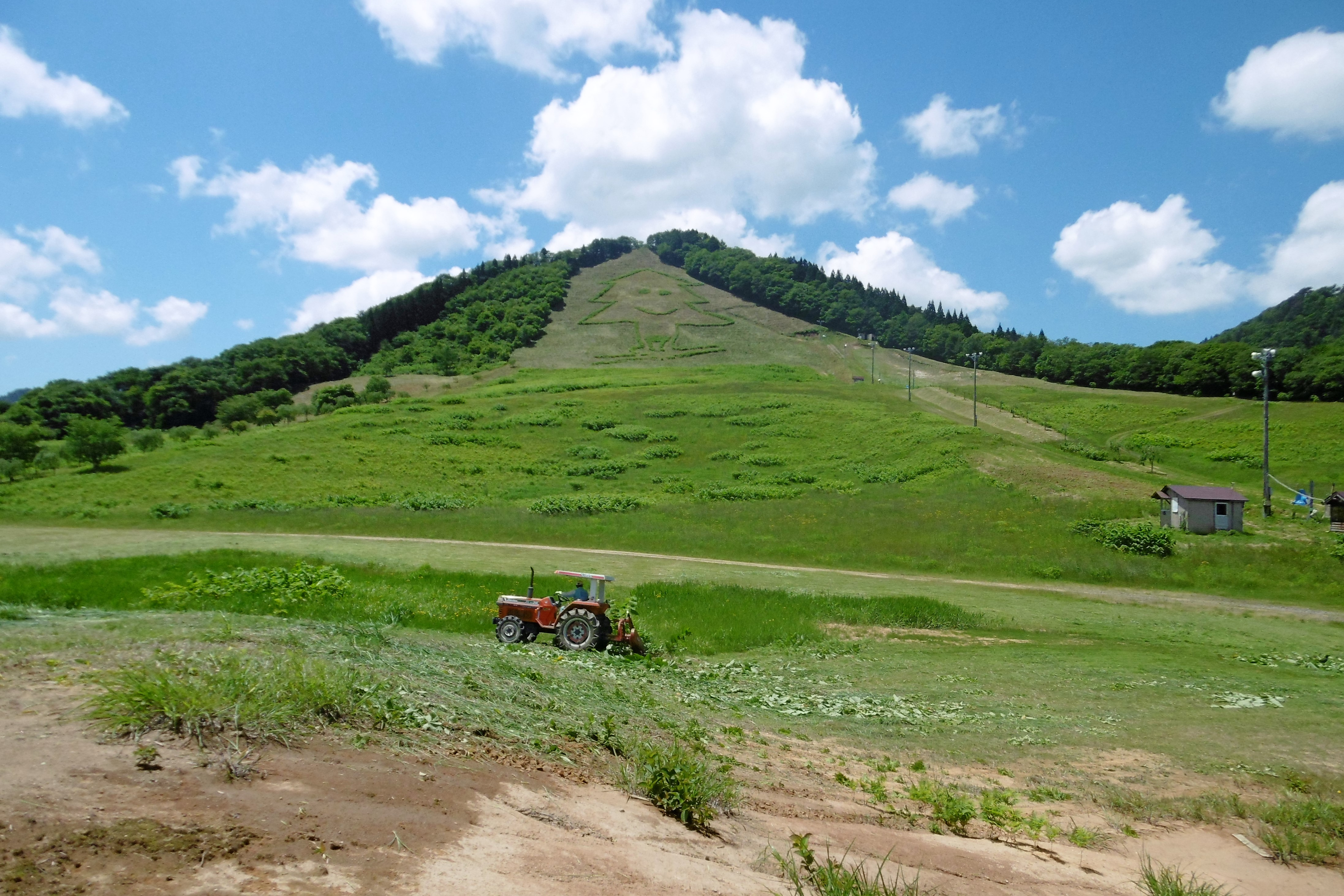 Yakushisan Ski Area in Kitaakita City, Akita Prefecture, Japan